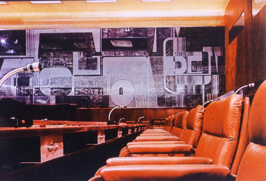 First hemicycle of the European Parliament in the Robert Schuman building in Kirchberg, Luxembourg City, Luxembourg in 1973. It houses a 120 seat debating chamber in a small rectangular room. The first plenary sitting using the hemicycle was held on 4 April 1973. Visible is the 1972 zinc bas-relief on the rear wall by Turin-based artists Nerone Ceccarelli and Giancarlo Patuzzi. A new larger chamber was opened in the nearby Kirchberg Conference Centre in 1979, with the European Parliament gradually holding its meetings in Brussels and Strasbourg, though the Luxembourg remians the basis of the Parliament's Secretariat.